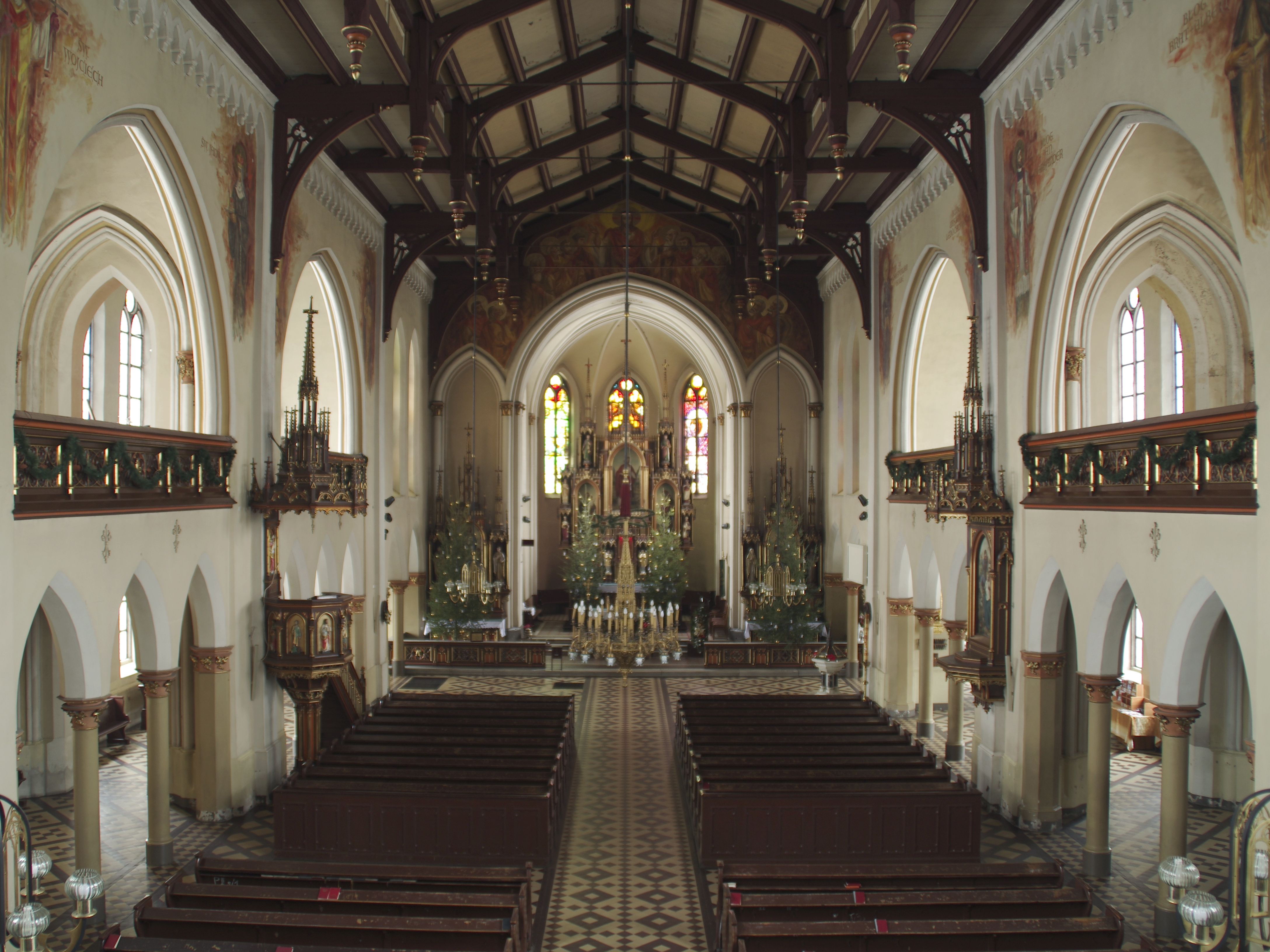 Interior of St. Barbara church in Chorzów, view from the matroneum, main altar.